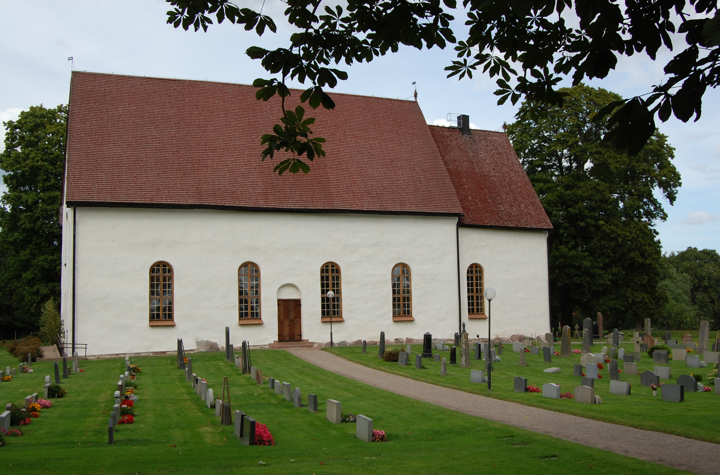 Arby Church.The earliest church was a wooden building which during 1100-1200 numbers is replaced by a stone church. The church has undergone several refurbishments and renovations.